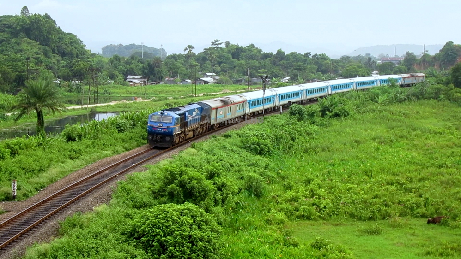 12088 Guwahati - #Naharlagun_Shatabdi Express hauled by #SGUJ's EMD #WDP4 (#EMD_GT46_PAC) #20001 (imported). This tri-weekly Shatabdi connects Assam's Guwahati with Naharlagun in #Arunachal_Pradesh. Naharlagun is the nearest railhead to #Itanagar - the capital of Arunachal Pradesh. Please do watch the video: Captured at North Guwahati.